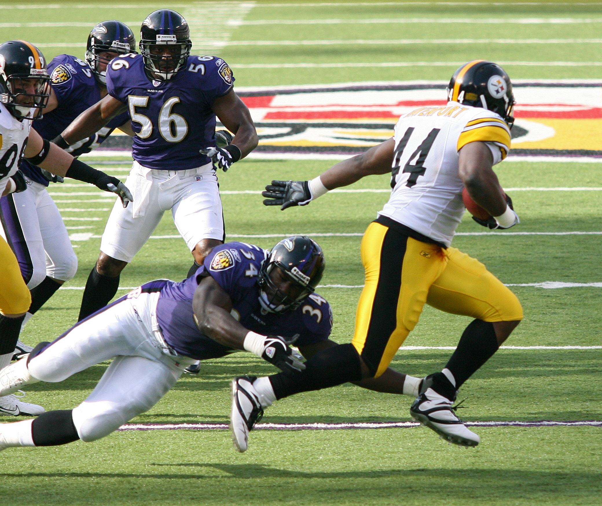 Baltimore pursue Pittsburgh's Najeh Davenport in a 2006 NFL game